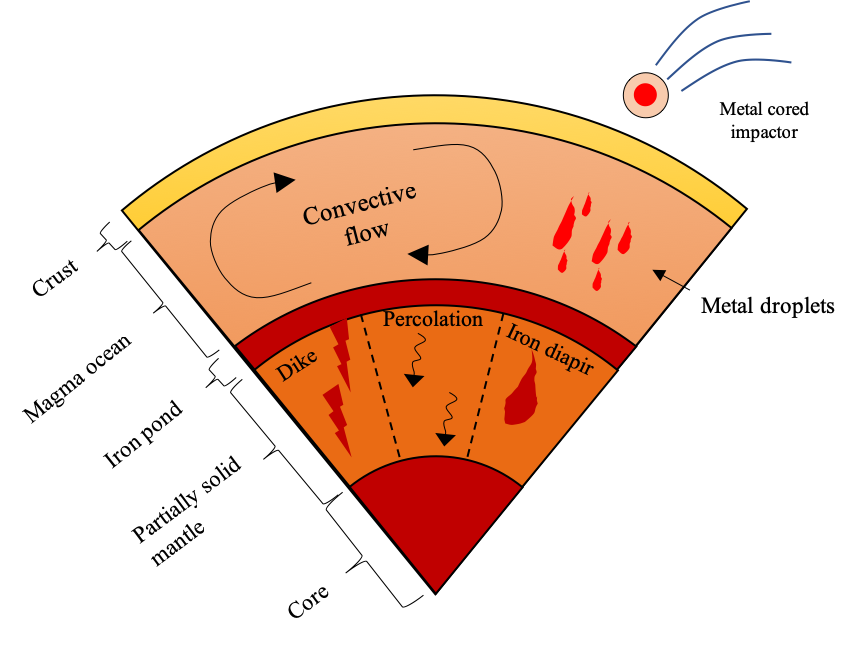 Hypothesized core-mantle differentiation processes: Percolation, Diking, and Diapirism.